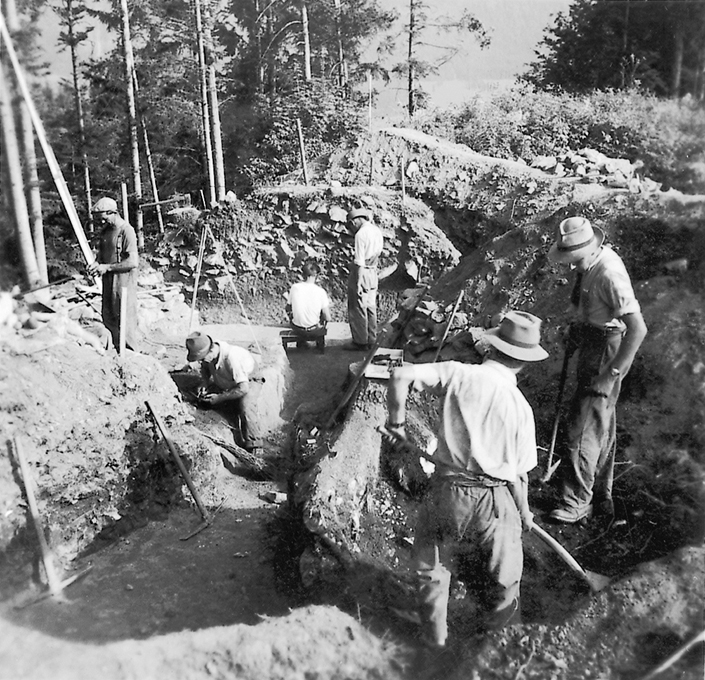 Ausgrabungen auf dem Borscht in Schellenberg